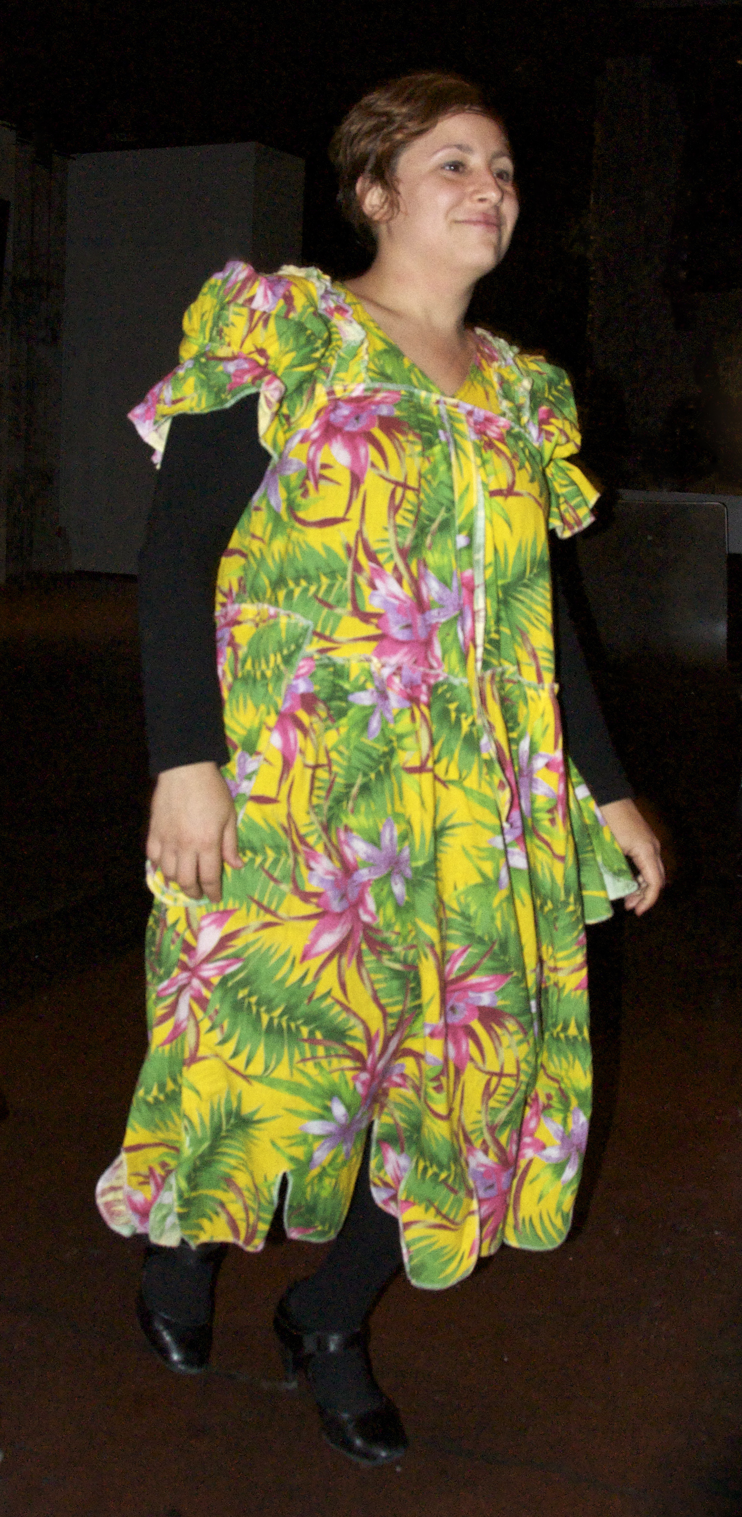 Woman wearing a muumuu